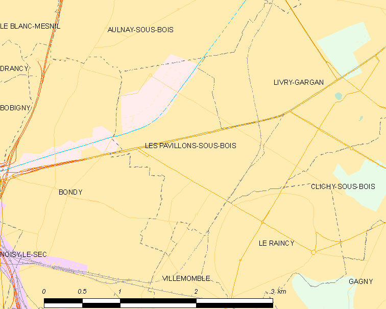 Map of French municipality Les Pavillons-sous-Bois